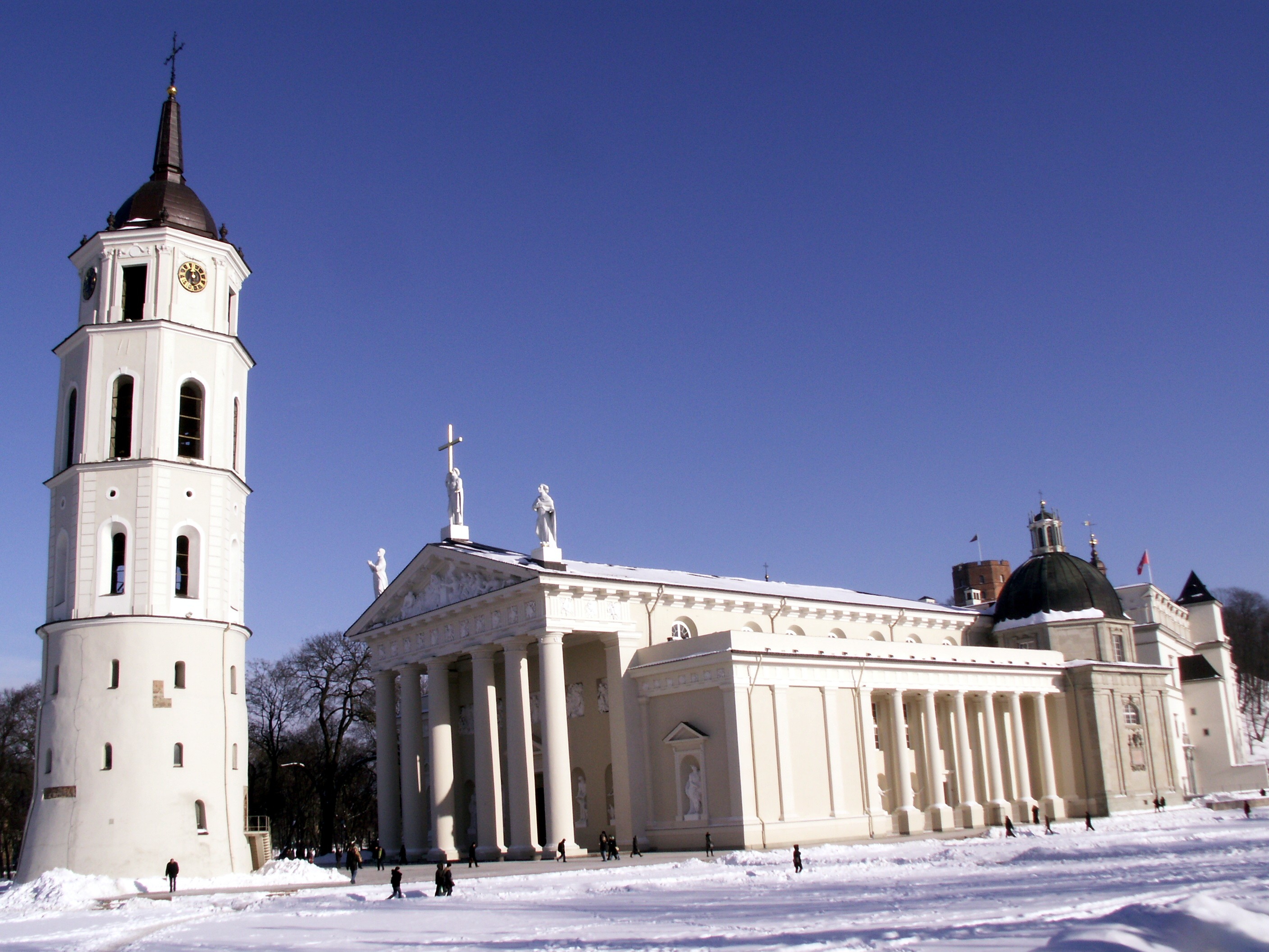 Vilnius Cathedral, Lithuania